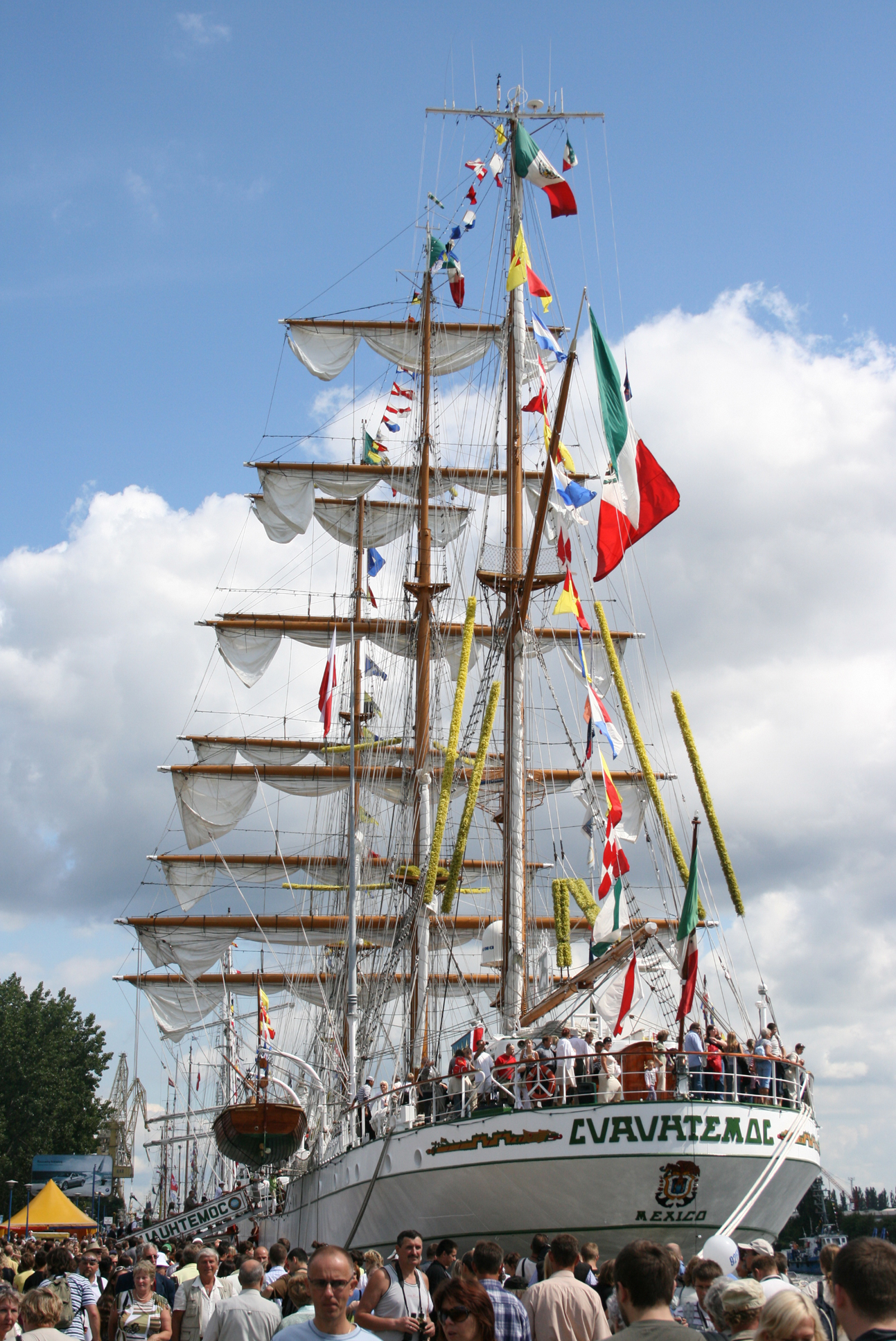 Cuauhtemoc, The Tall Ships' Races, Szczecin 2007